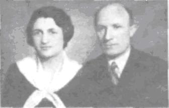 bulgarian revolutionary/ies